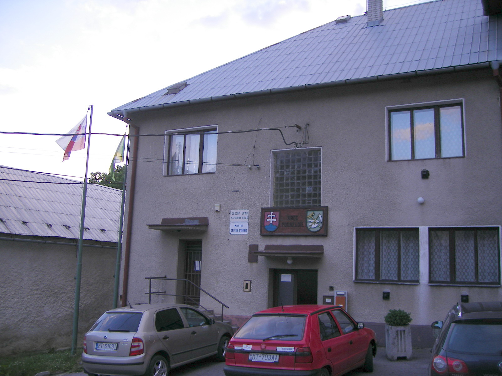 Podhradie - town hall